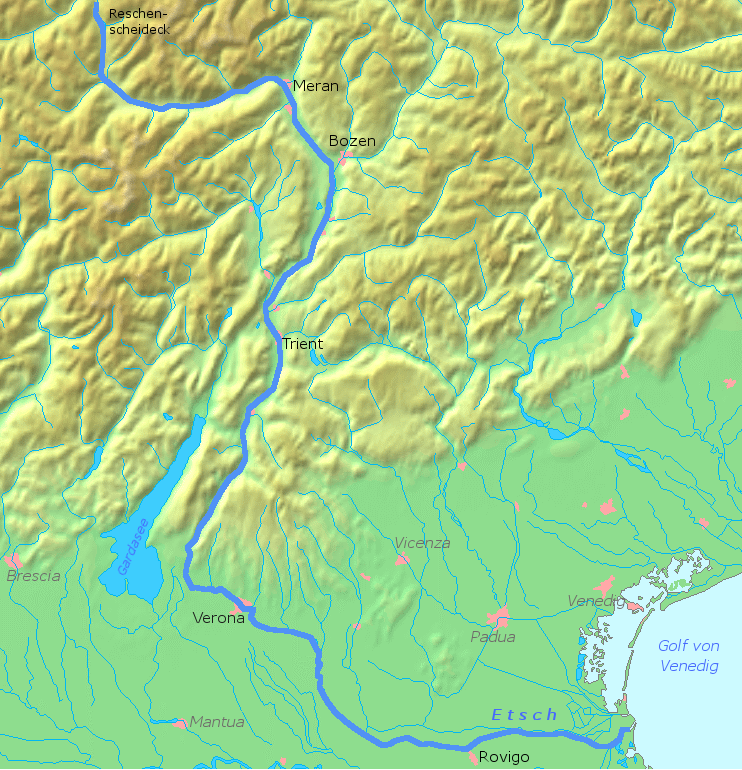 map of Etsch/Adige